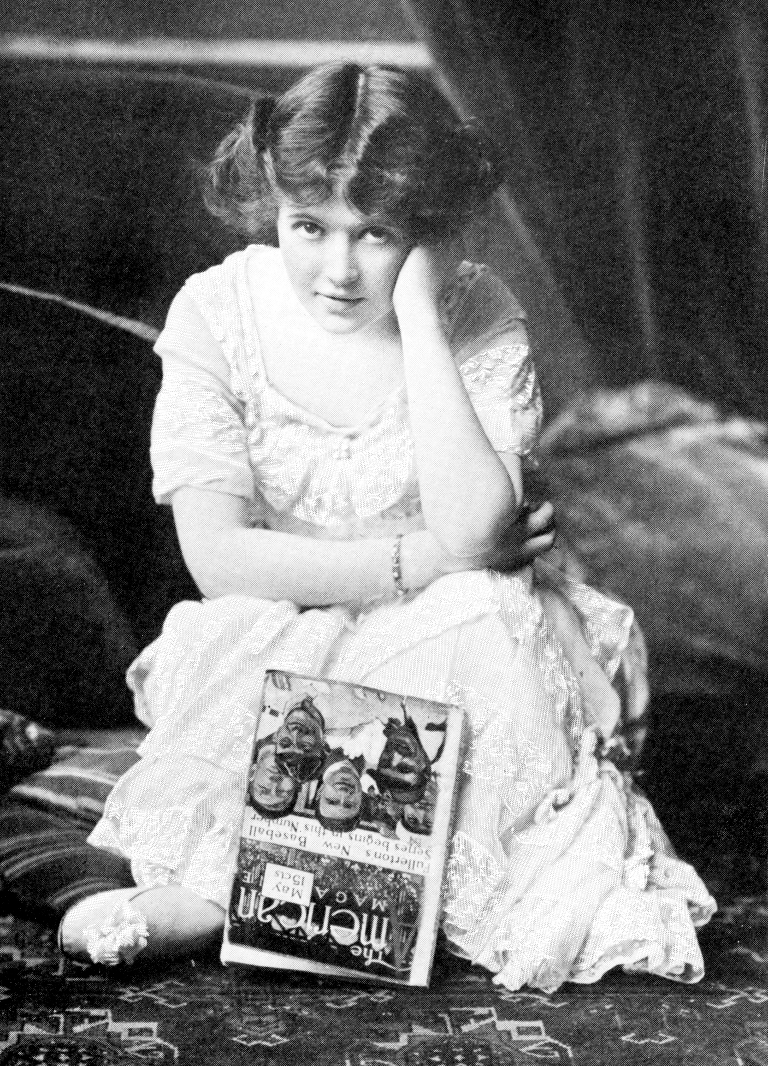 Candid photograph of actress Marguerite Clark, then starring in the stage production Snow White and the Seven Dwarfs (details) and appearing in the stage production The Affairs of Anatol (details)